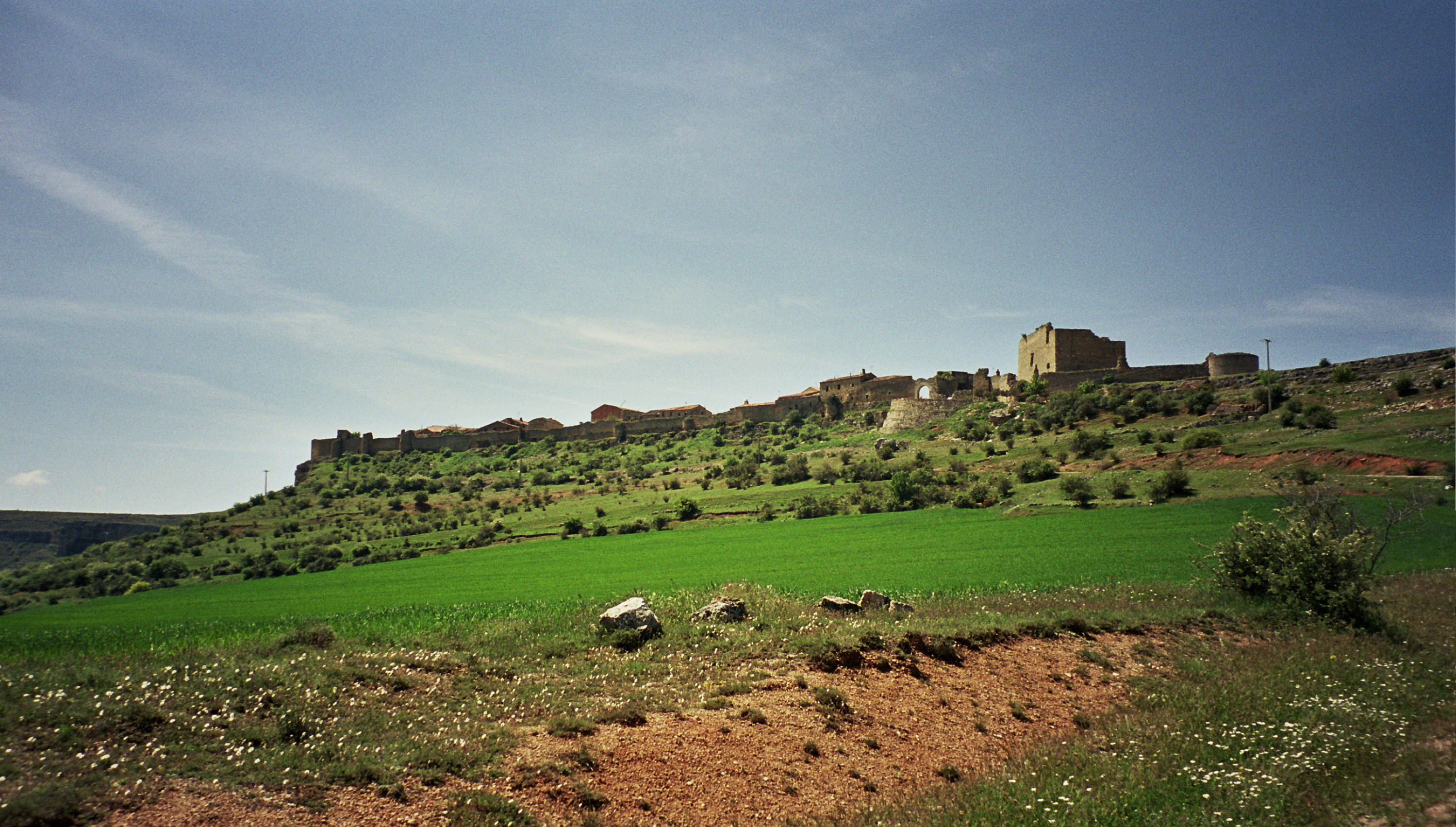 Rello, Soria, Spain Rello desde el norte, Soria (España)